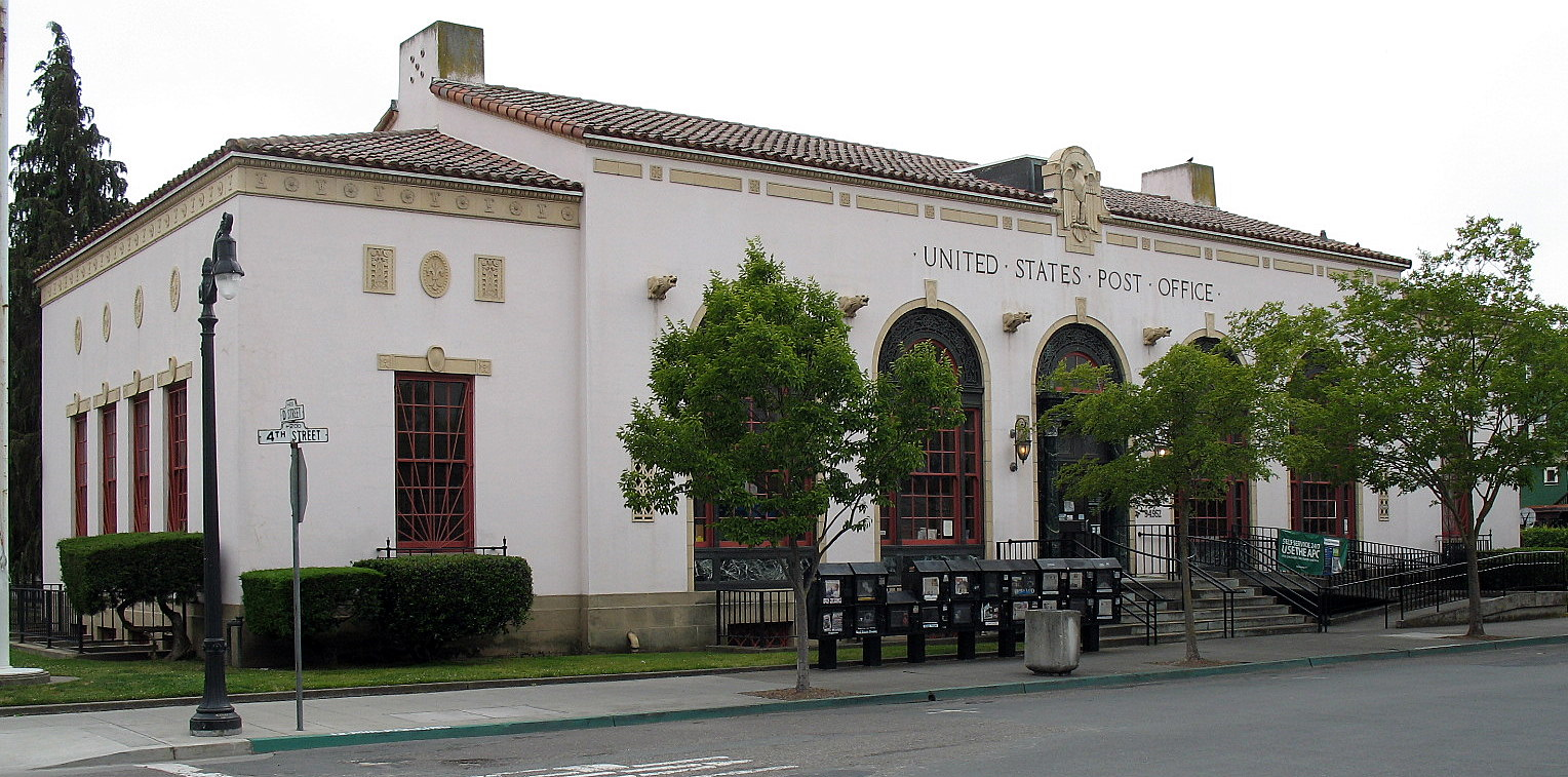 National Register of Historic Places listings in Sonoma County, California. United States Post Office, 120 4th St., Petaluma, CA. Photographed from the northwest corner of 4th and D Sts.